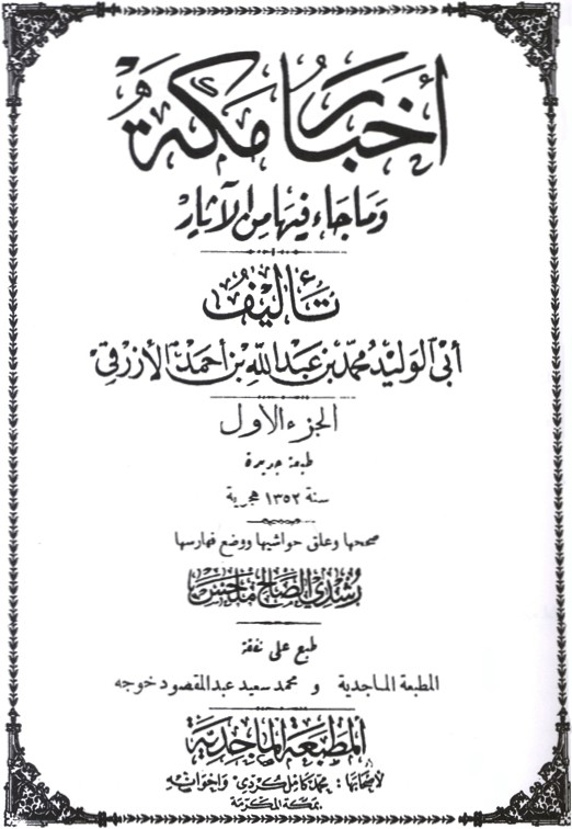 كتاب أخبار مكة .تأليف أبي الوليد الأزرقي المكي. في القرن التاسع